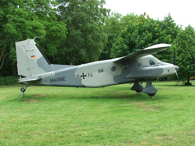 German navy Dornier DO-28 Skyservant at Kiel Marine Air Force Base